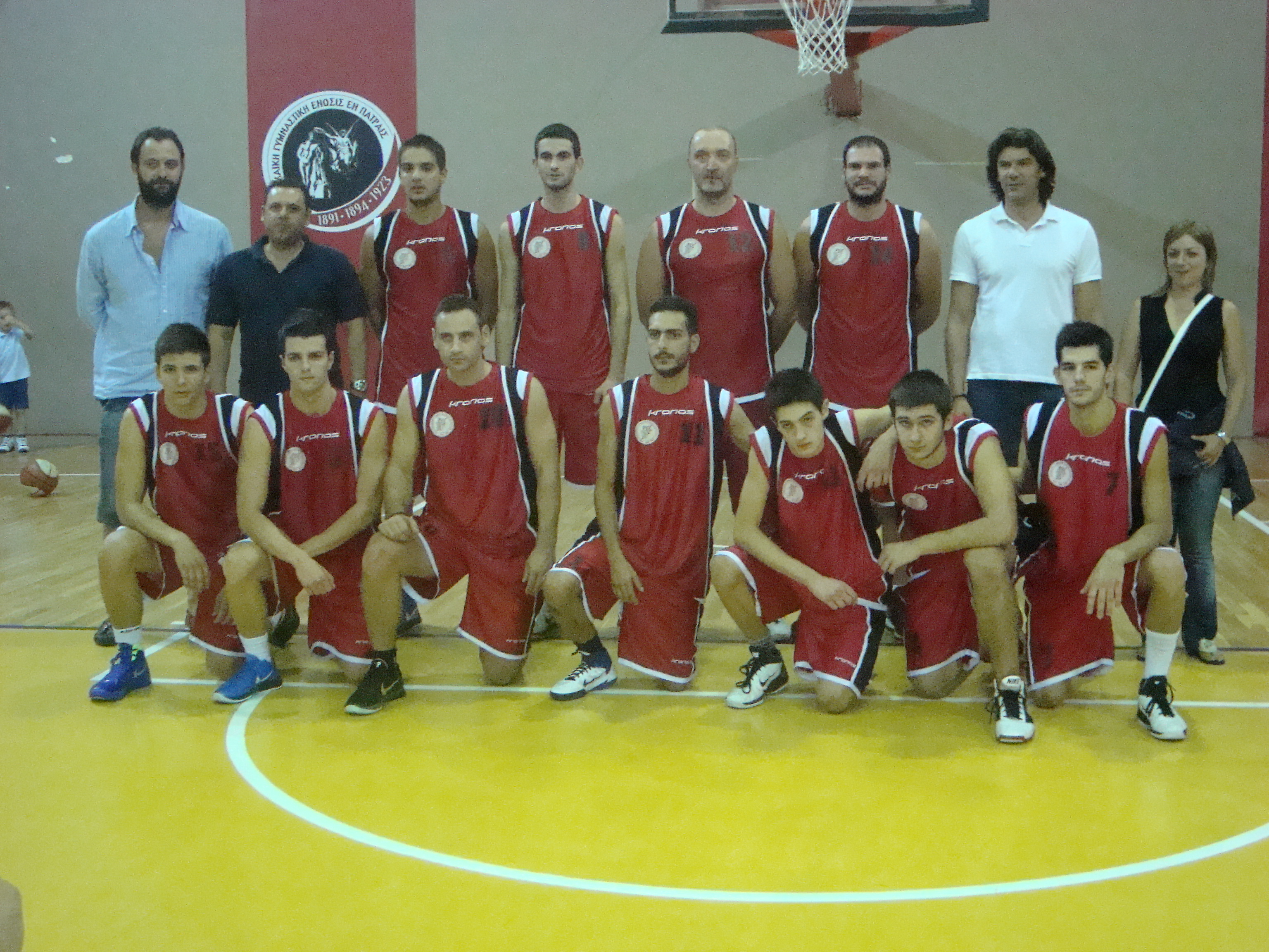 Basketball Tournament "D. Nezeritis" 2011, Panachaiki 1891 White Apolloniada, Bluck Sfiga